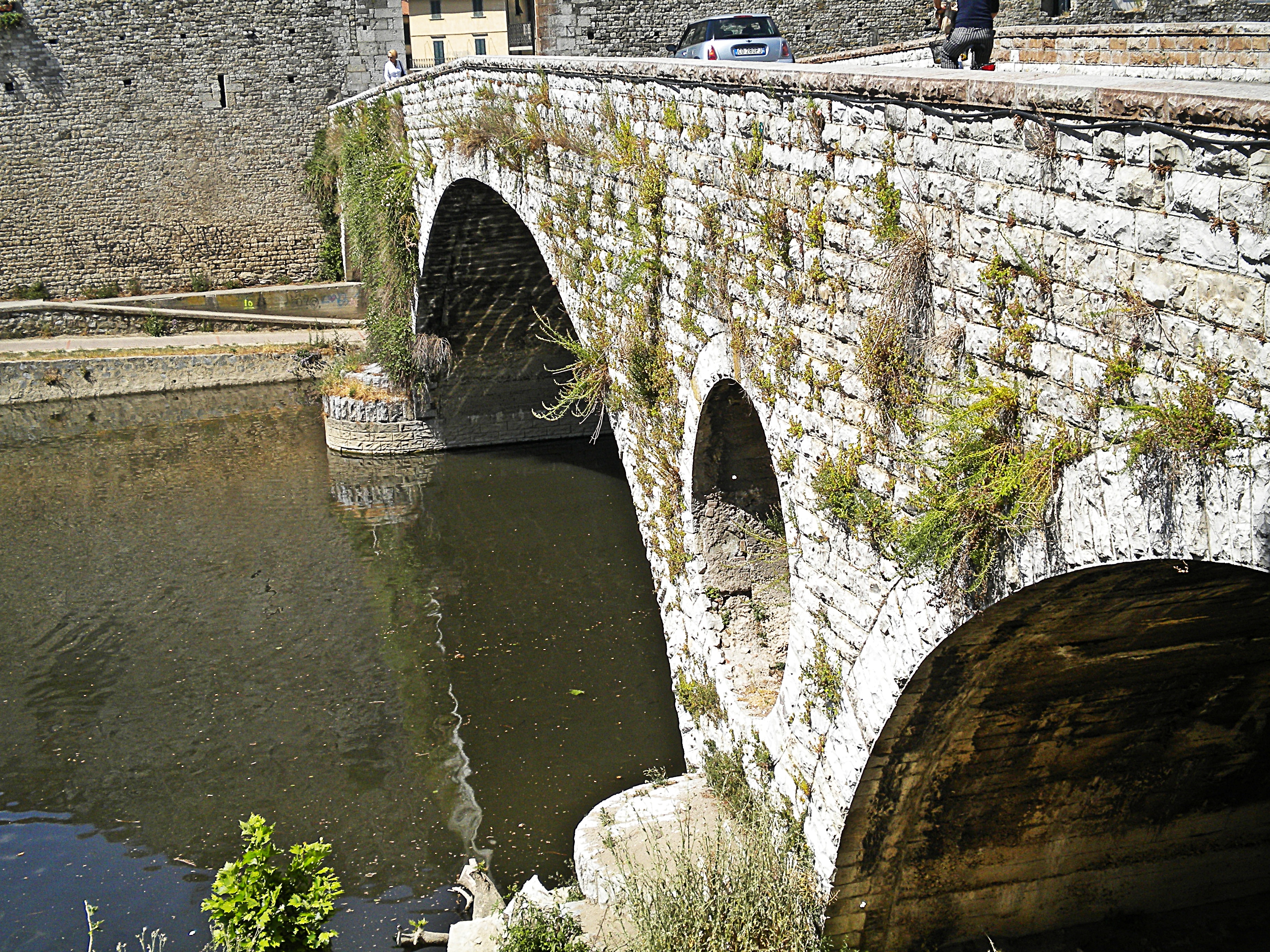 Mercatale bridge